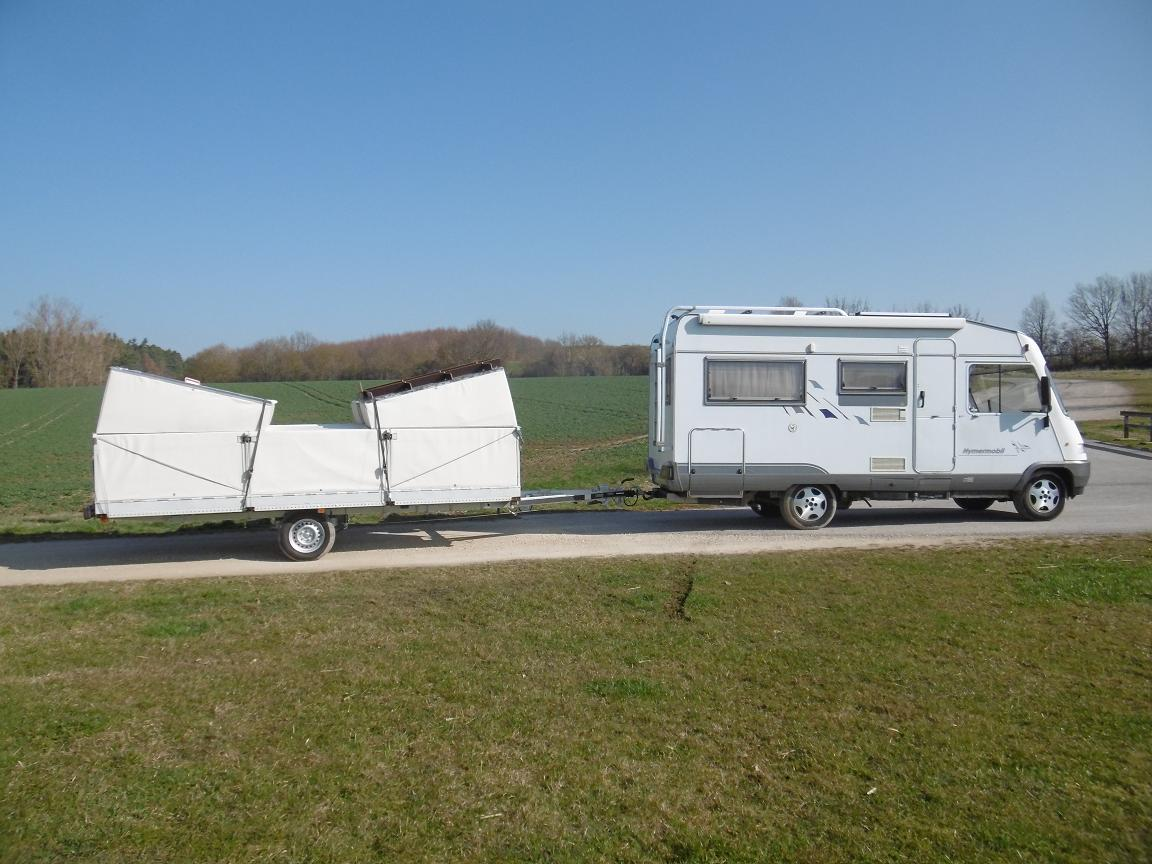 Armins pontoon ashore. The unfoldet car trailer makes the motorhome to a houseboat.